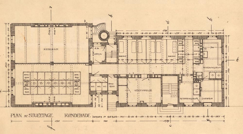 Plan of the women's section in the ground floor of Sjællandsgade Public Baths in the Nørrebro district of Copenhagen, Denmark